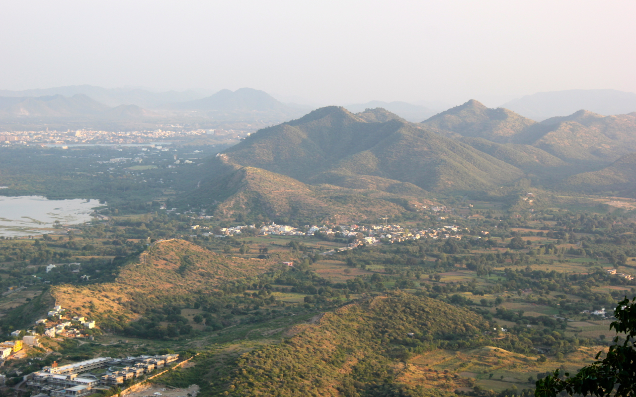 Hills of Rajasthan Nature, scenery, aerial view Rajasthan, India. Oct '12.